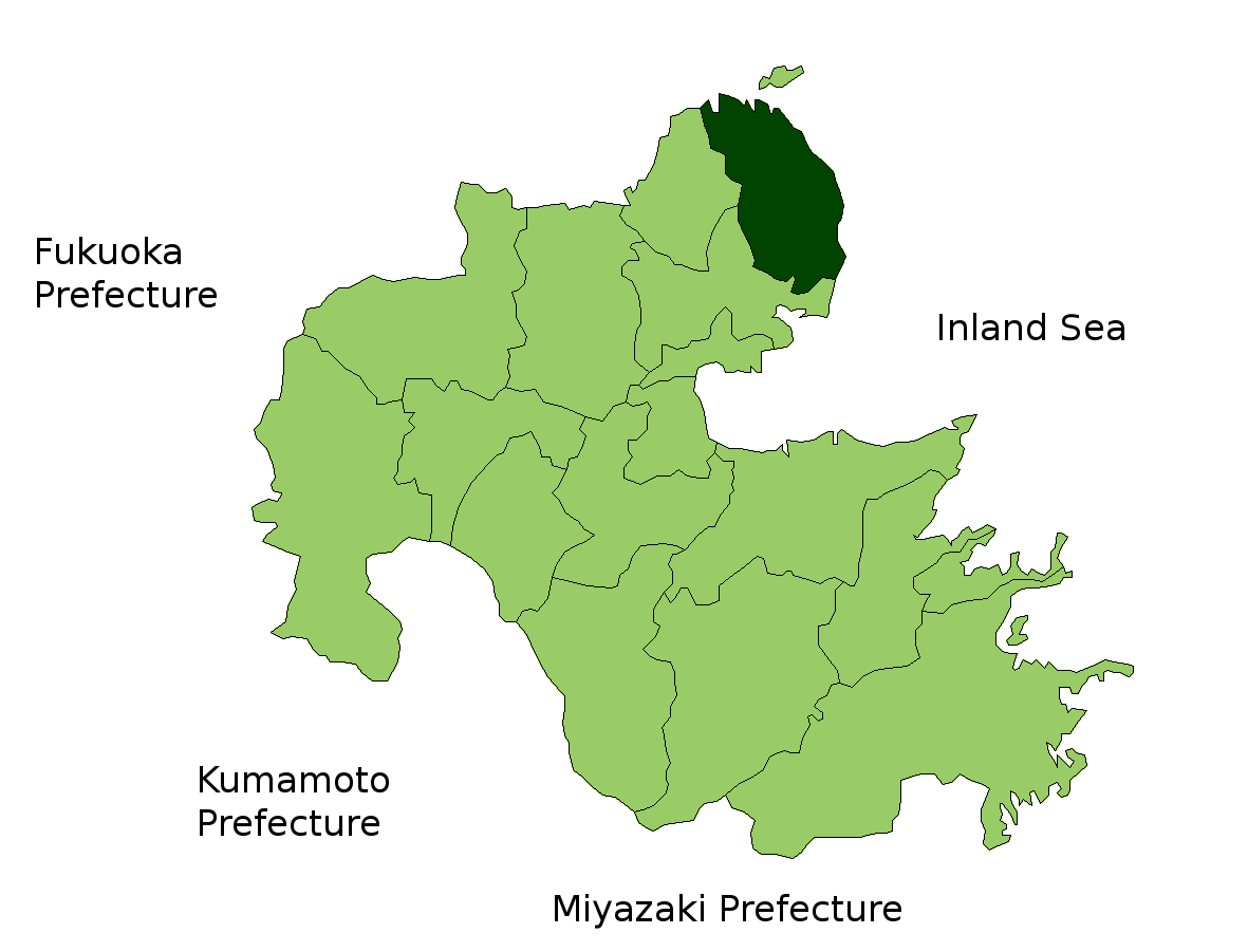 Location Map of Kunisaki in Oita Prefecture, Japan